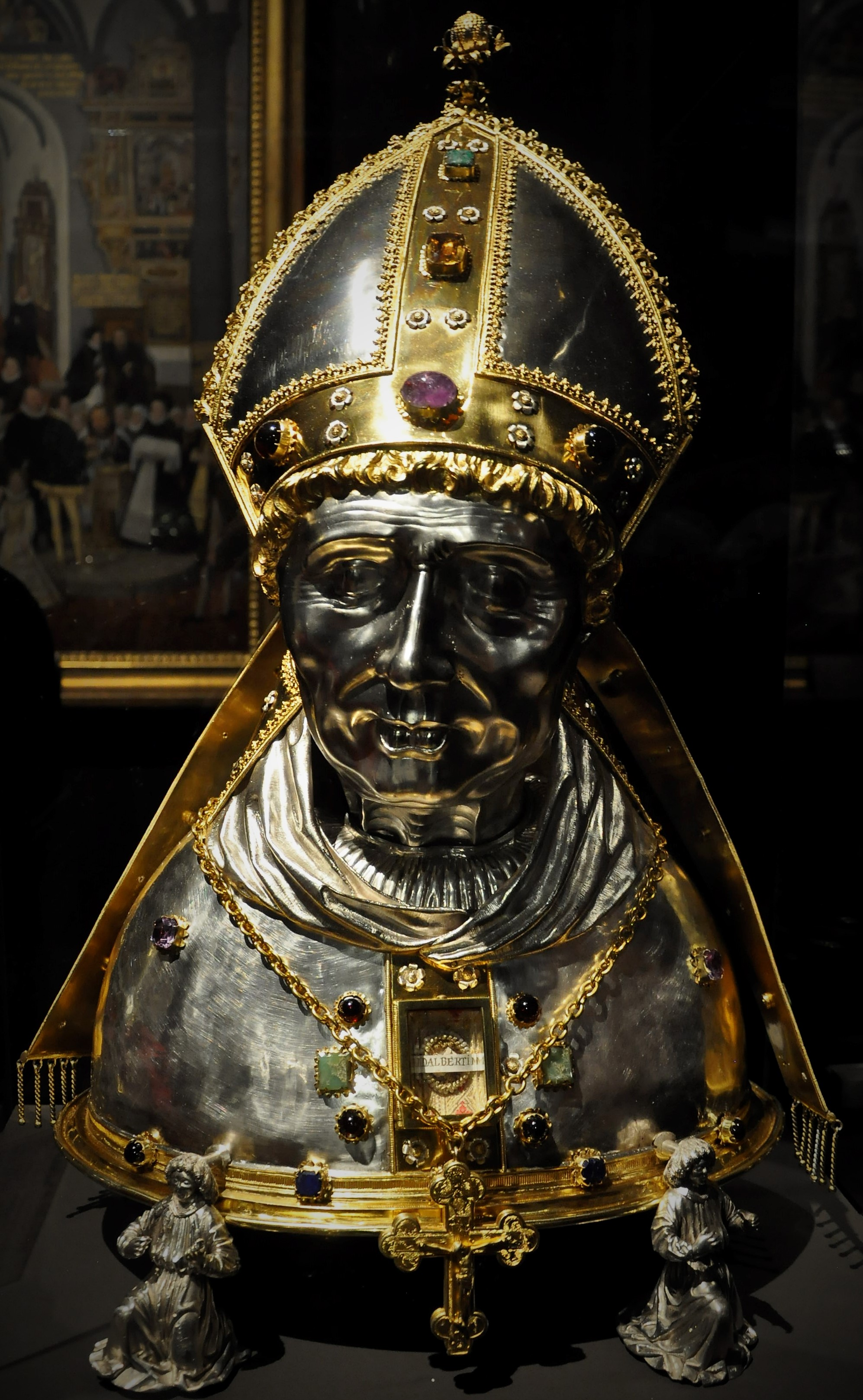 Reliquary bust of St. Adalbert (Vojtěch) given to Prague Cathedral by King Wladislaus II of Bohemia and Hungary. Made cca AD 1500.